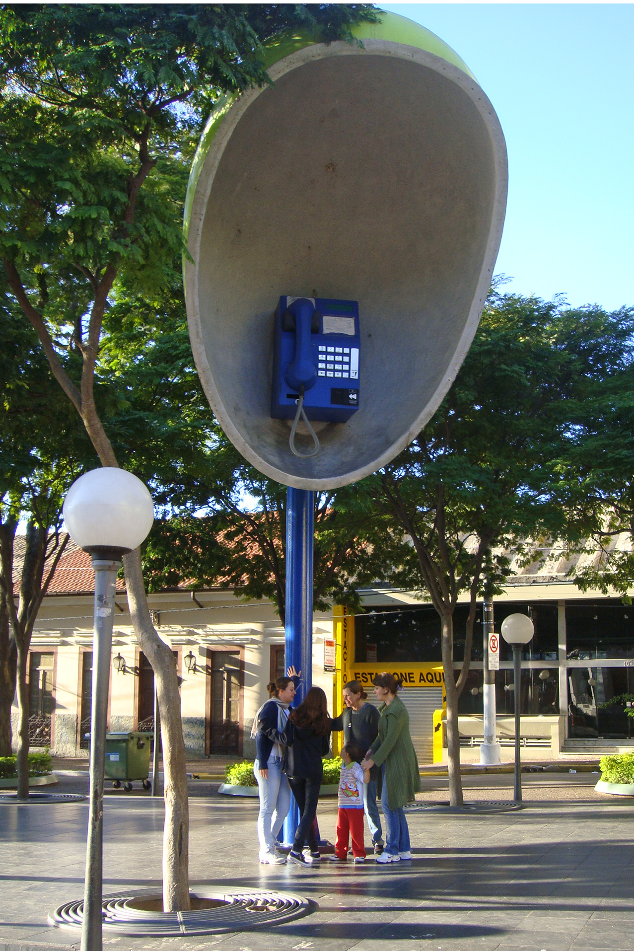 Giant public phone at Itu central park, São Paulo, Brazil.